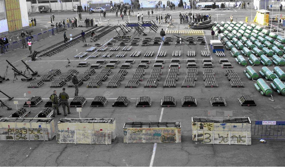 A display of weapons and other military equipment confiscated from the Karine A ship, used in an attempt to smuggle weapons to the Gaza strip. Picture taken in Eilat.